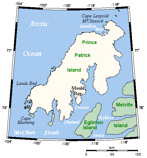 A closeup map of Prince Patrick Island in the Northwest Territories, Canada.